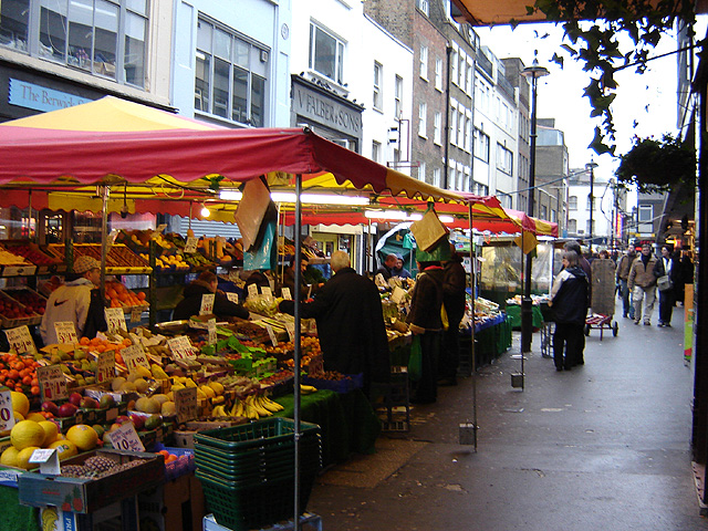 Berwick Street Market, Soho, London. 14 January 2006. Photographer: Fin Fahey.